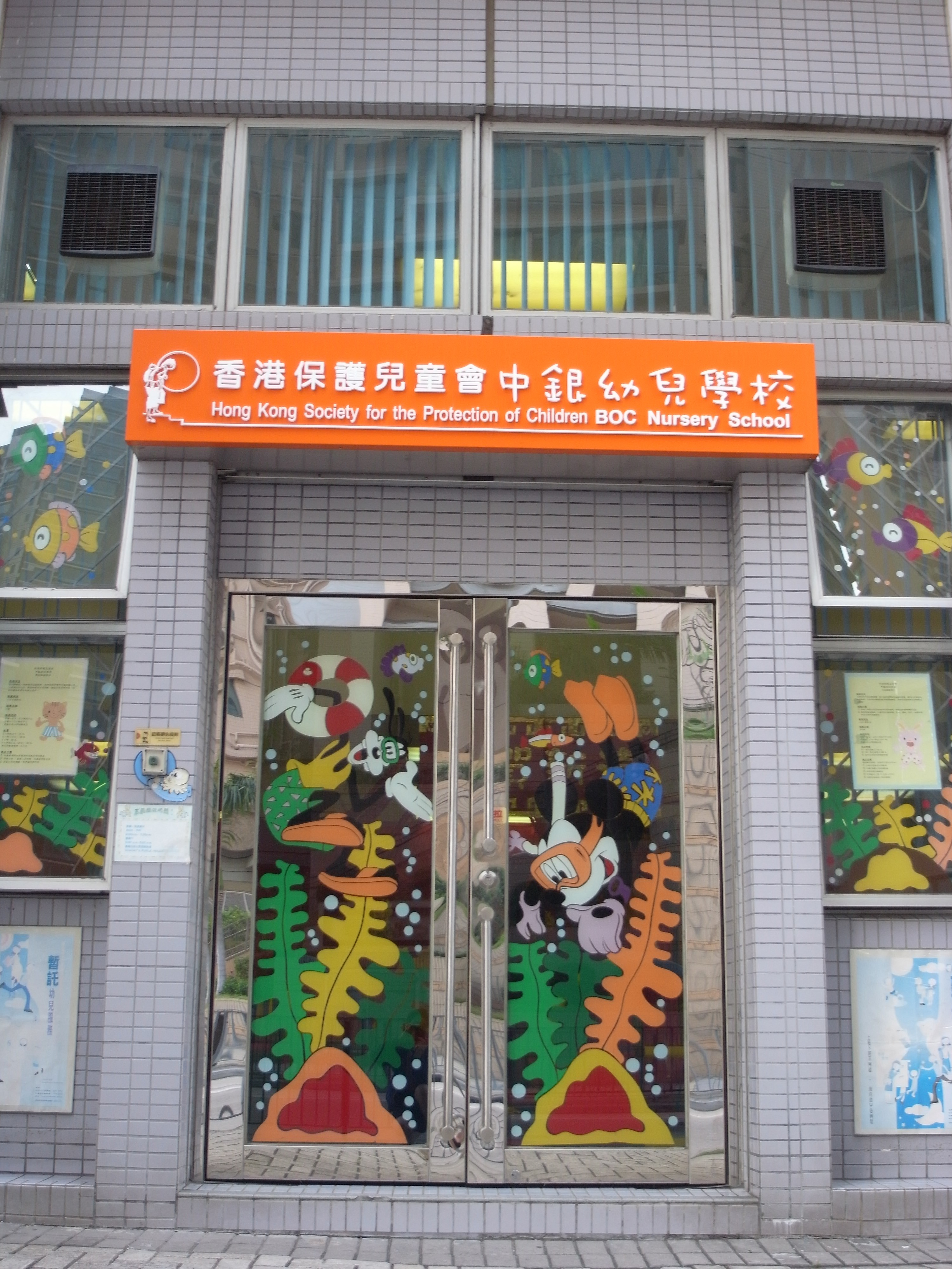 中銀幼兒學校-學校大門